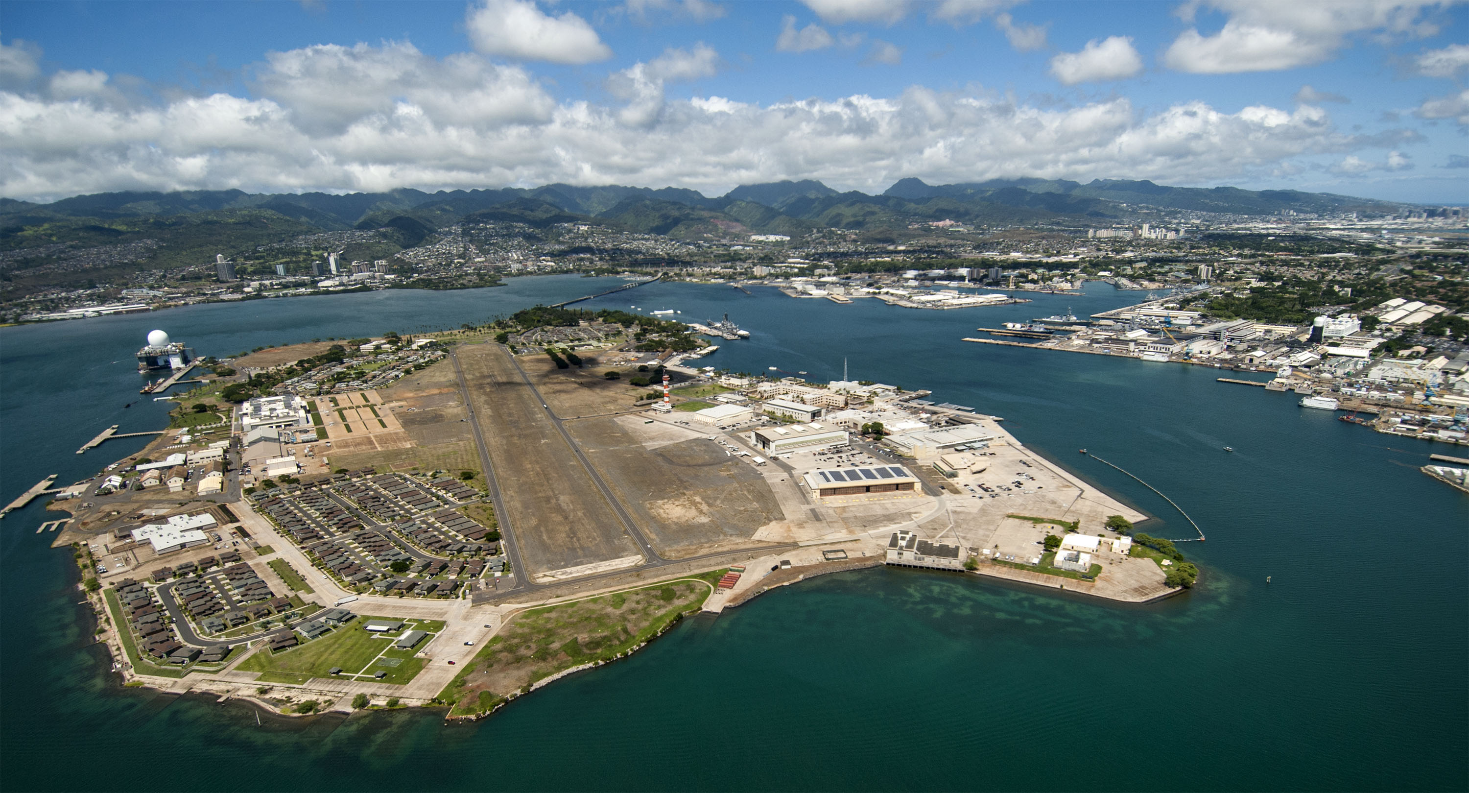 An aerial view of Ford Island, part of U.S. Joint Base Pearl Harbor-Hickam.